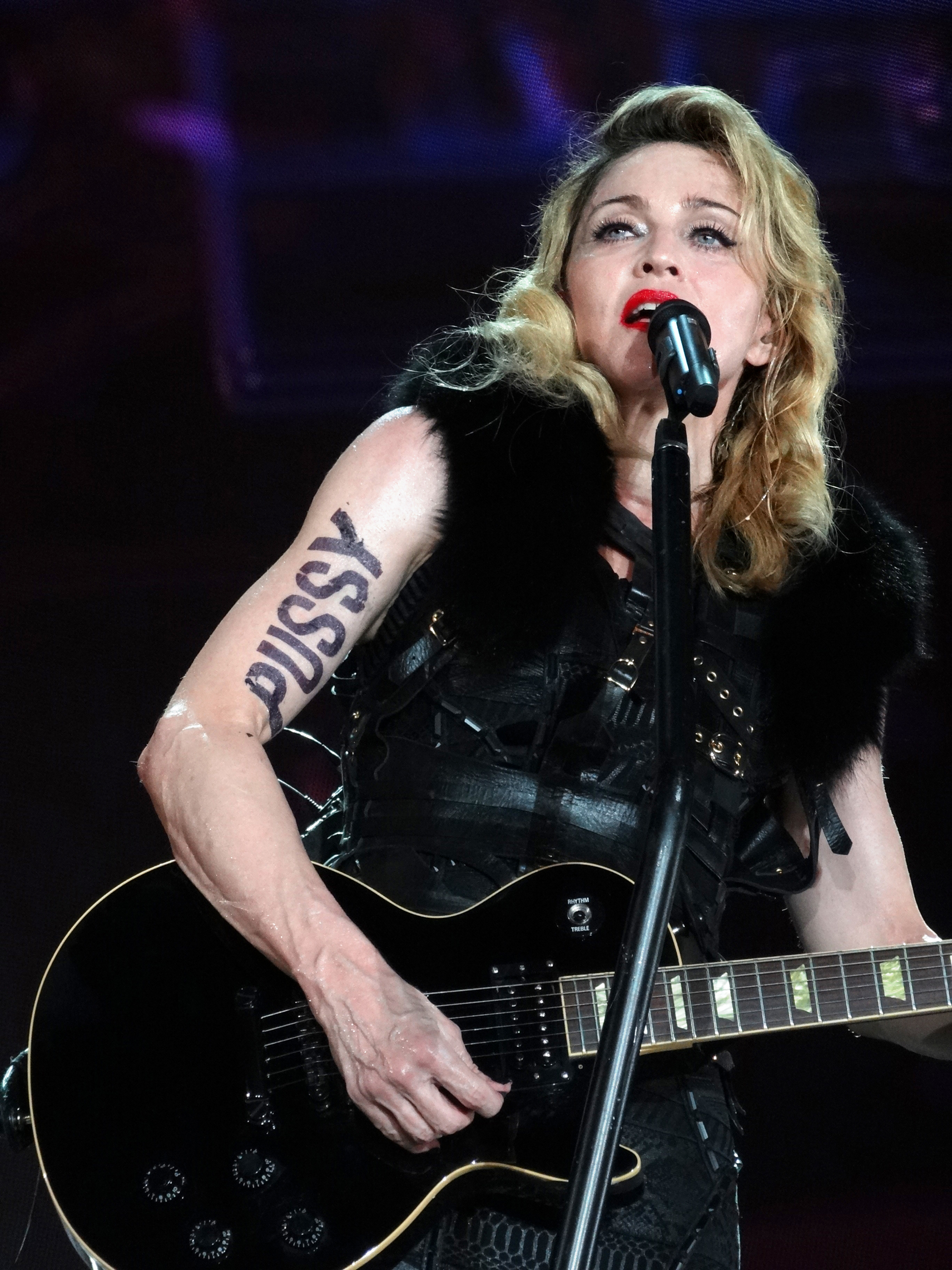 Madonna during her concert in Nice as part of her MDNA Tour on August 21, 2012.